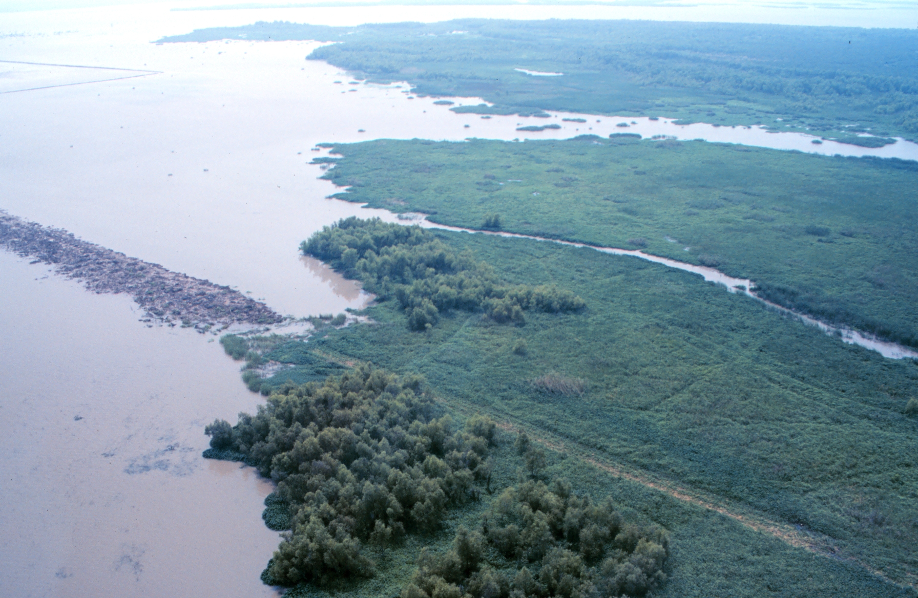 Atchafalaya Bay, St. Mary Parish, Louisiana. An aerial view of the Big Island Mining Project restoration site.